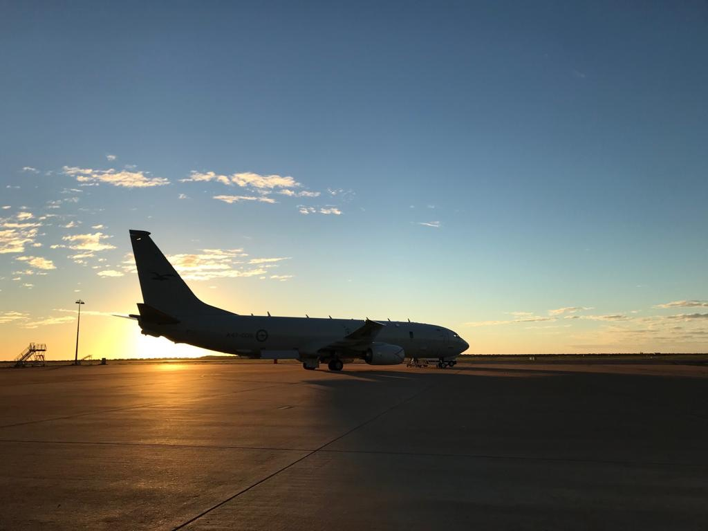 P-8A Sunrise